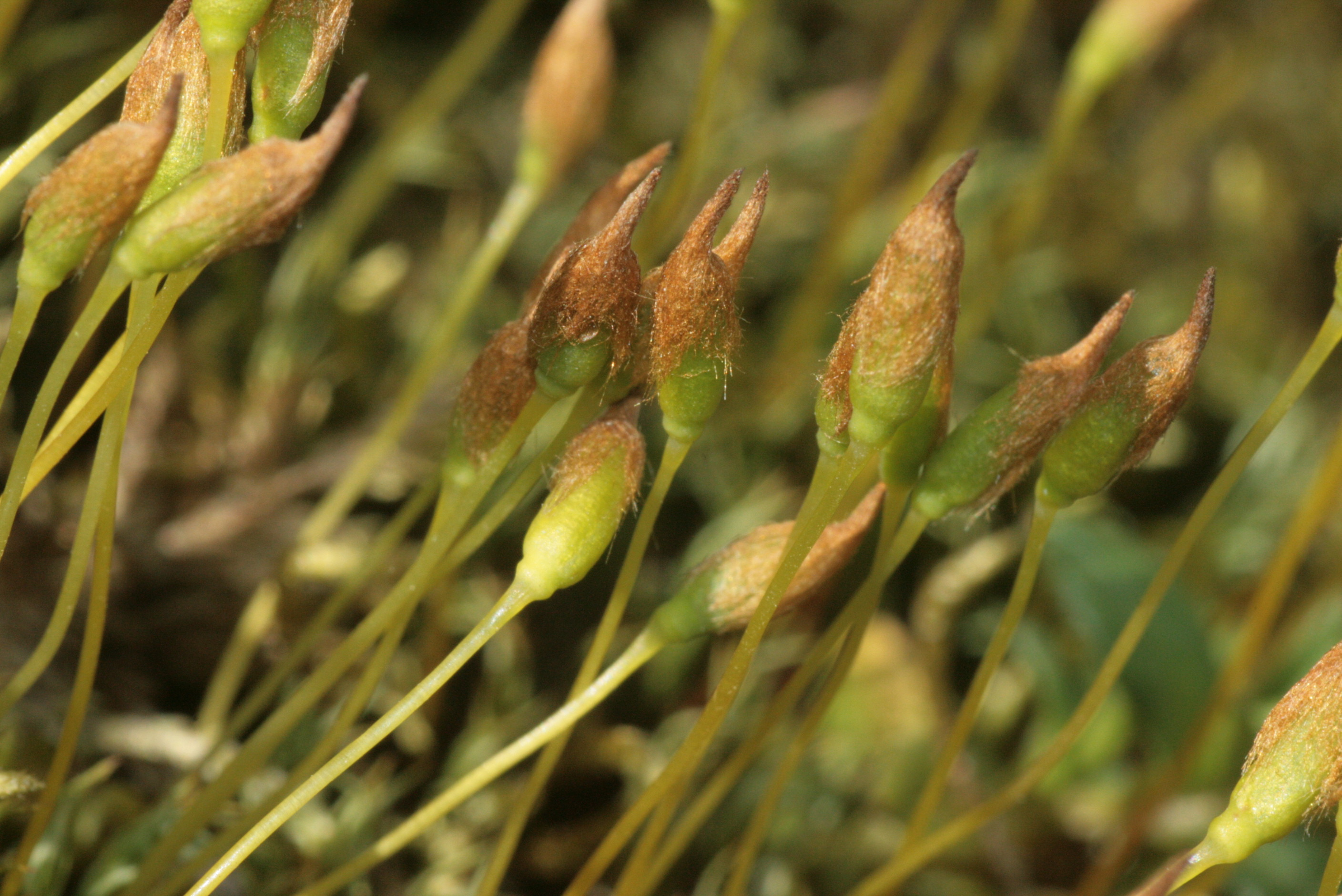 Polytrichum alpinum